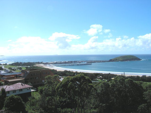 Coffs harbour